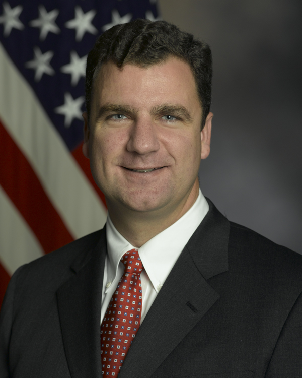 David Scantling, former Assistant Deputy Under Secretary of Defense (ADUSD)